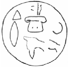 Hieroglyphic seal E9.573, found in Troy VIIb, drawing from Hawkins/Easton (1996) text: BONUS2.FEMINA [.]-pa-tá-[.] drawing of an ancient artefact, academic fair use in Luwian hieroglyphs, Troy and related articles.